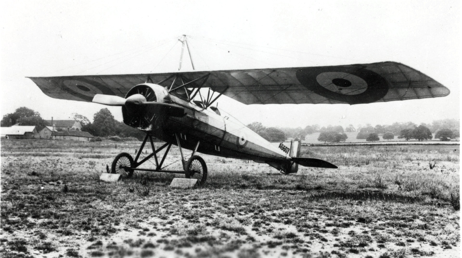 Morane-Saulnier P French First World War reconnaissance aircraft in RFC markings